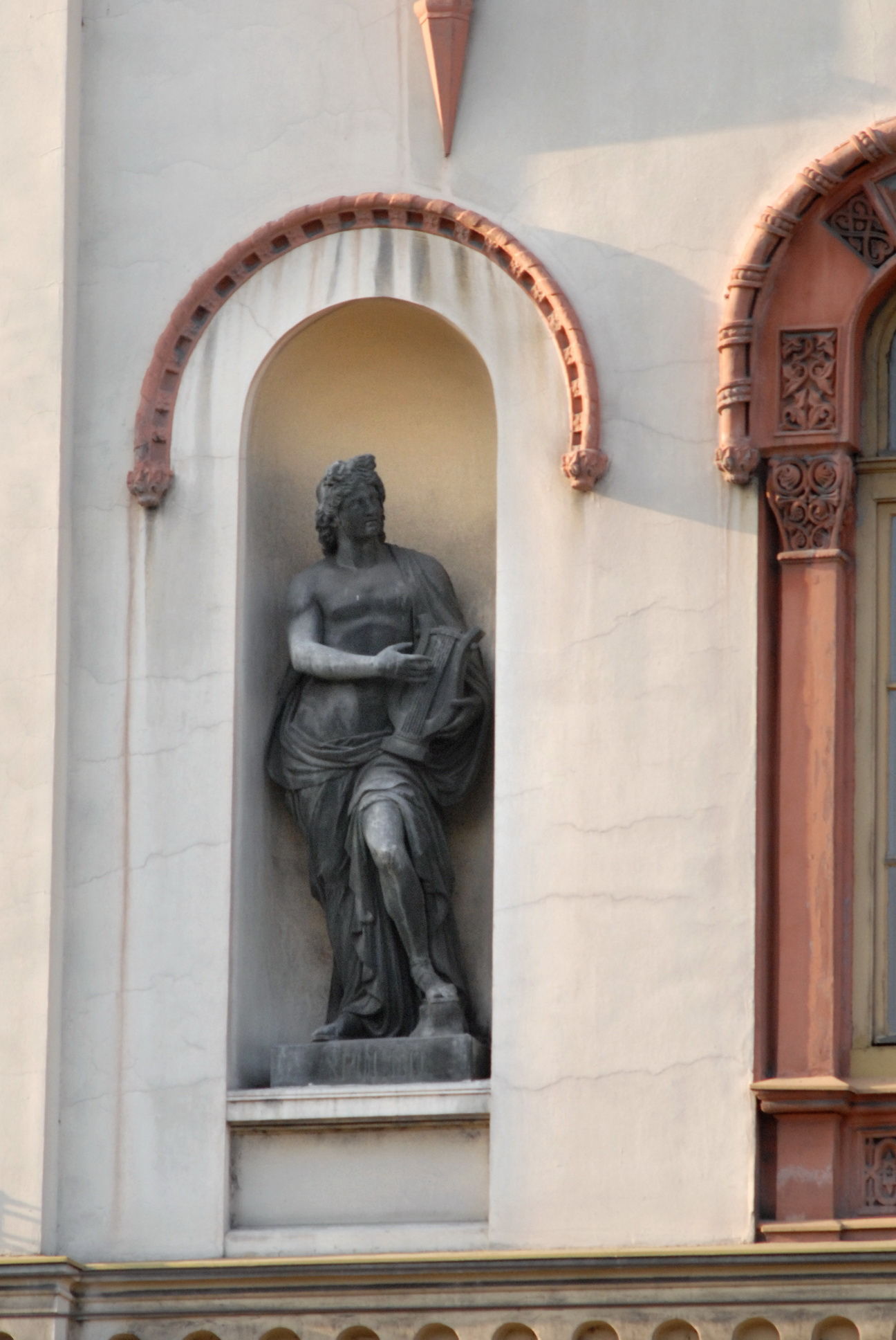 Statua